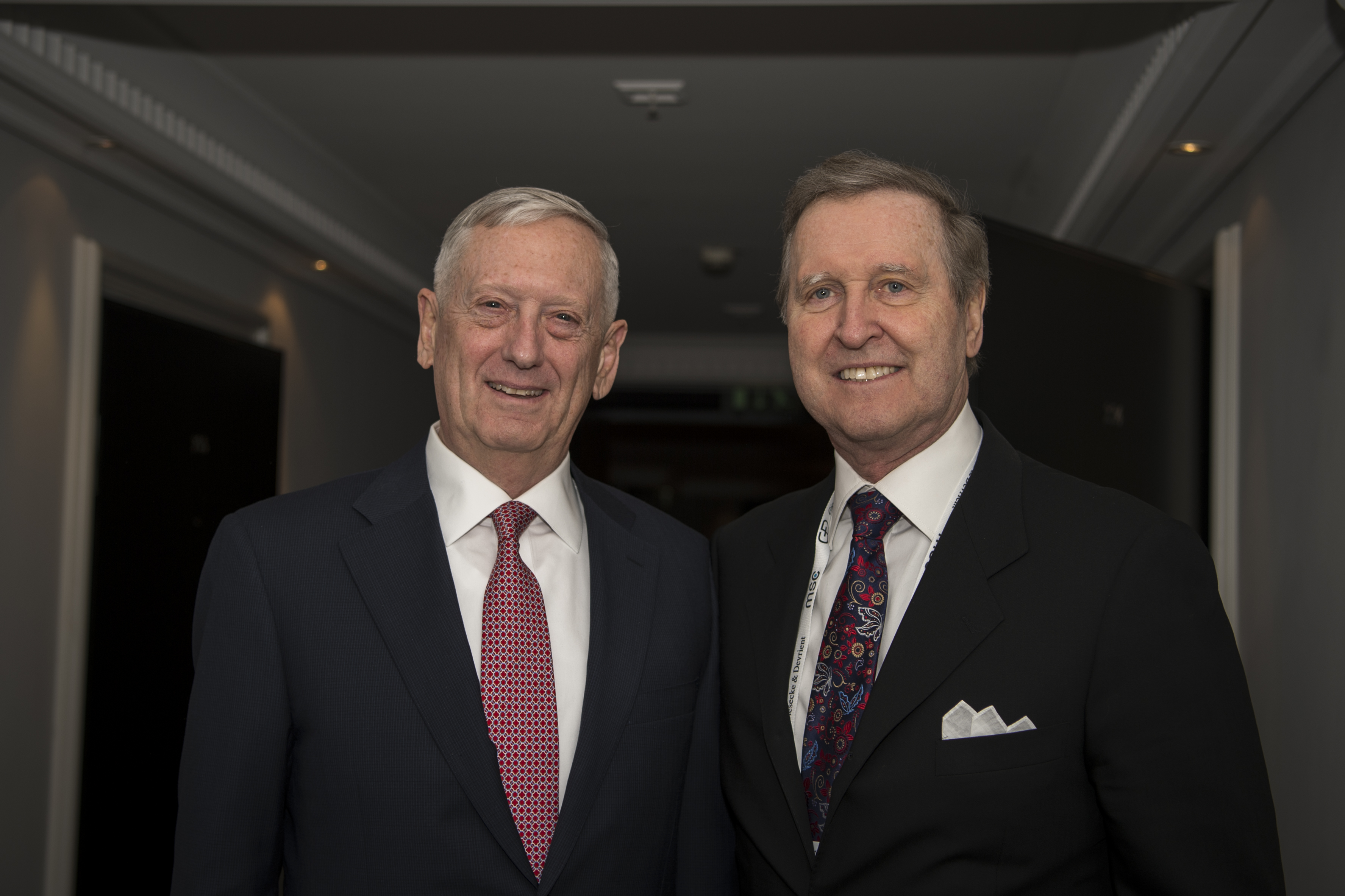 Secretary of Defense Jim Mattis meets with former Secretary of Defense William Cohen prior to the Munich Security Conference in Munich, Germany, Feb. 17, 2017. Cohen served as the 20th Secretary of Defense from 1997-2001. (DOD photo by U.S. Air Force Tech. Sgt. Brigitte N. Brantley)